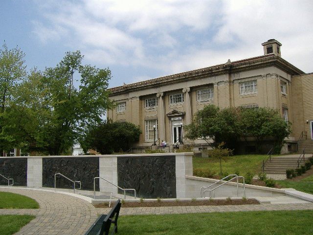 Picture of the old Post Office at Warder Park in Jeffersonville, Indiana